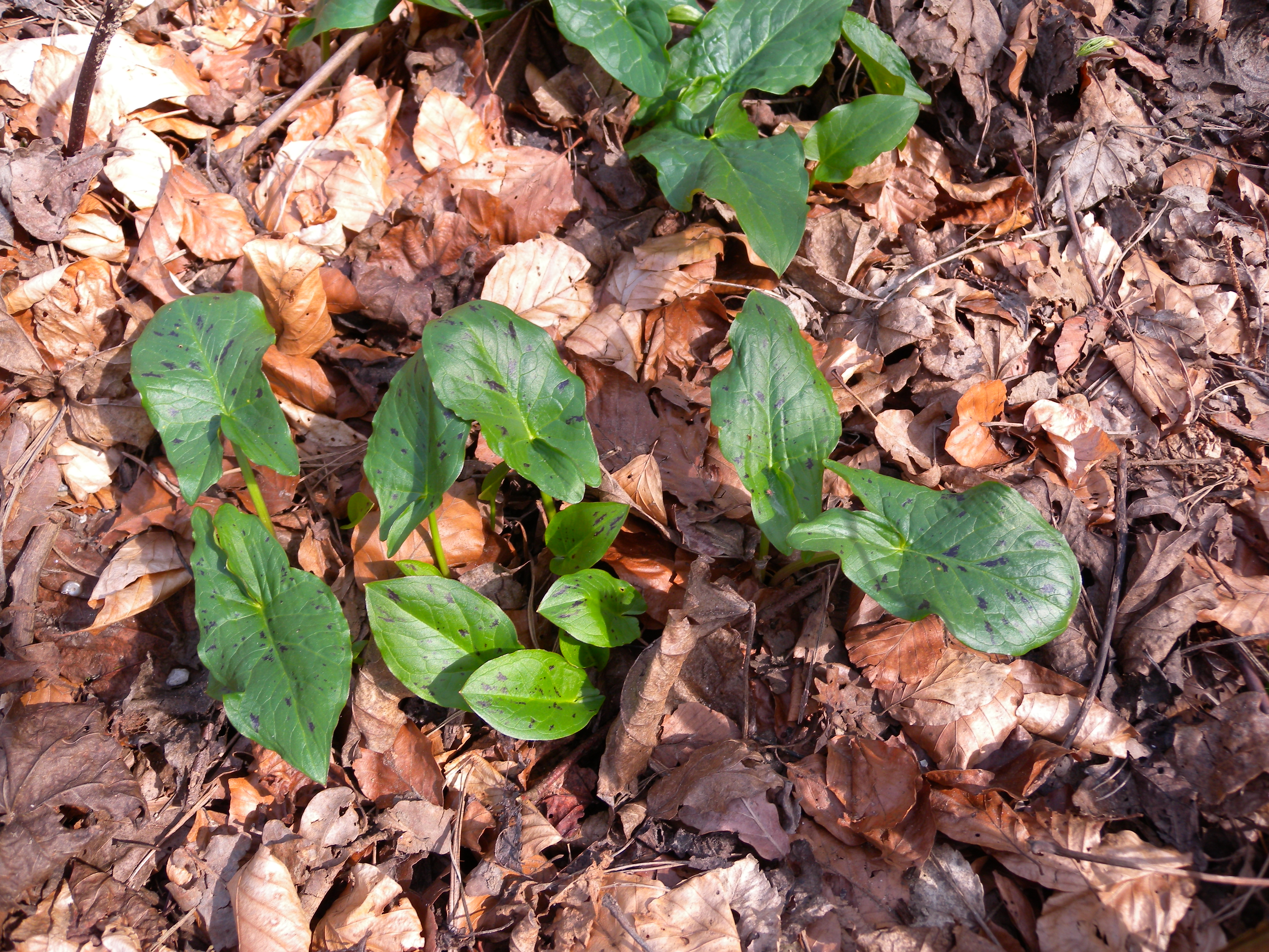 Leaves of Arum maculatum (Araceae); Reichenbachwald, Bern, Switzerland